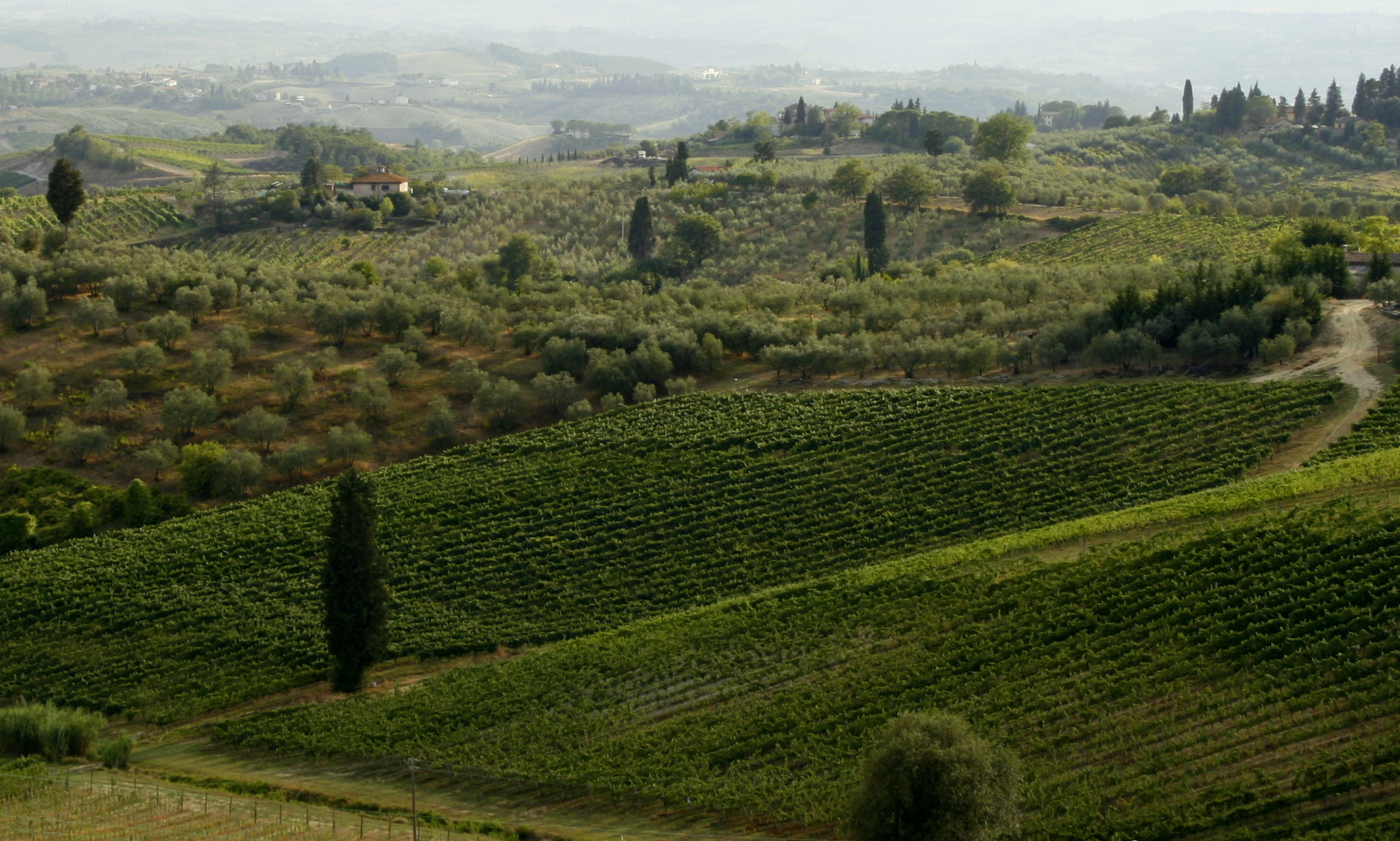 Beautiful to look at and a little bit exciting to drive through too!